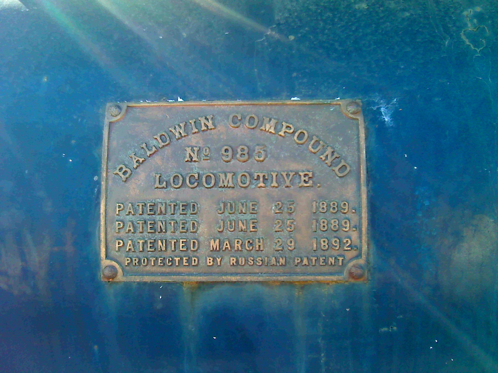 The data plate of Chinese Eastern Railway X180 Steam locomotive at Changchun